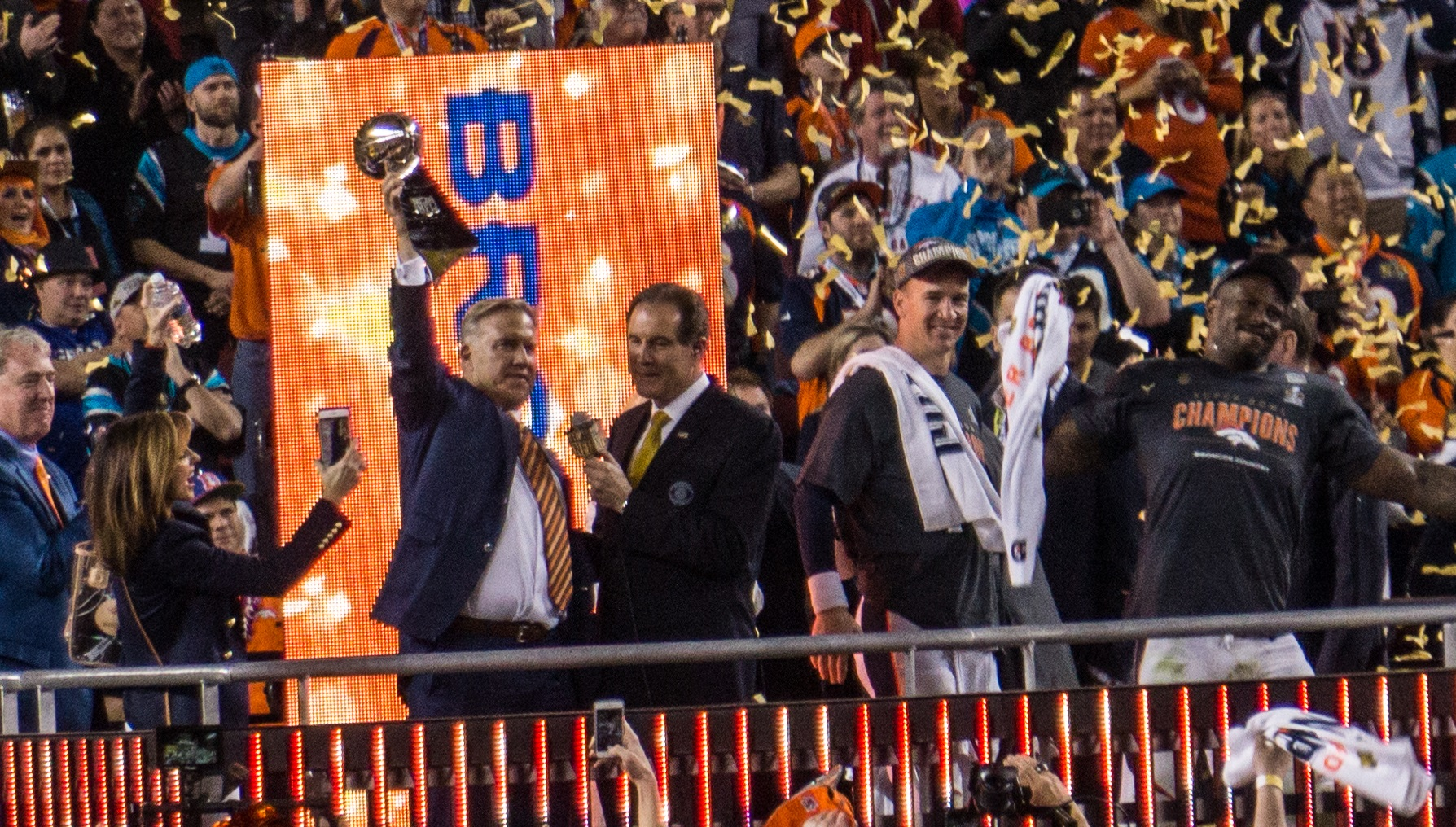 The Denver Broncos celebrating their victory after Super Bowl 50